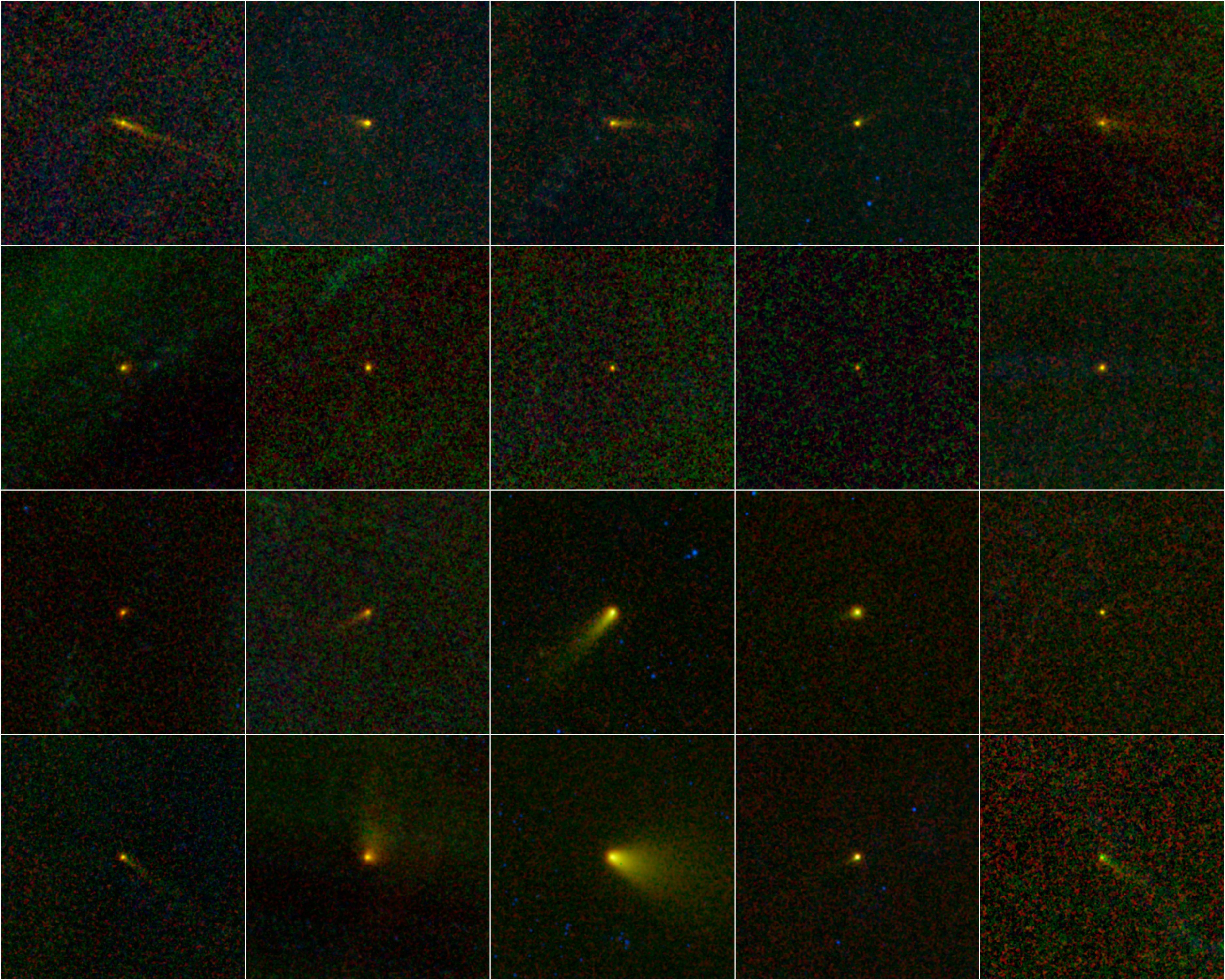 During its one-year mission, NASA's Wide-field Infrared Survey Explorer, or WISE, mapped the entire sky in Infrared light. Among the multitudes of astronomical bodies that have been discovered by the first NEOWISE portion of the WISE mission are 20 comets. This collage shows those 20 new comets together in a kind of family portrait. The fuzzy background in each picture is due to random fluctuations in infrared light, primarily from Dust in our own solar system. Stars cannot be seen because they were subtracted during the process of combining multiple WISE pictures to make this view centered on the moving comets.